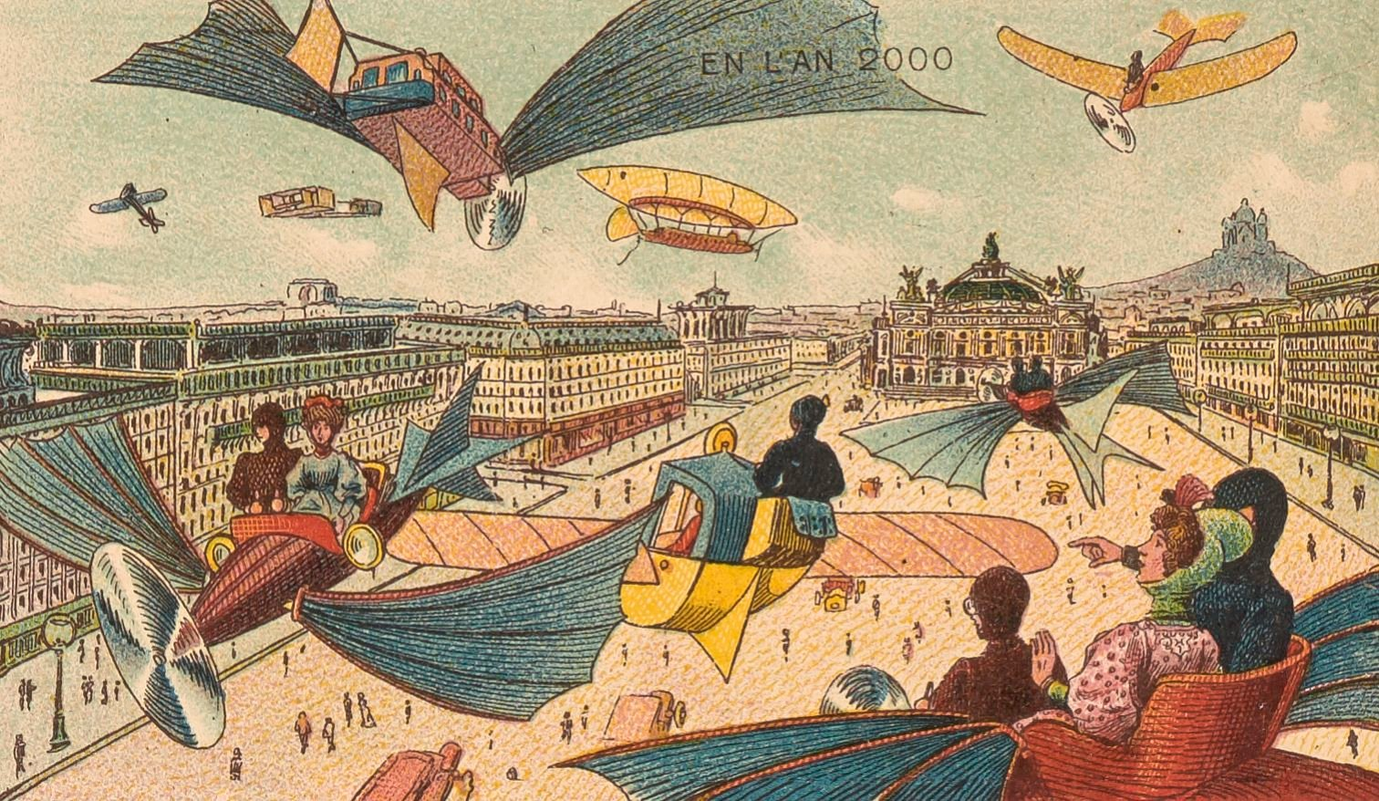 France in 2000 year (XXI century). The Avenue of the Opera. France, paper card.